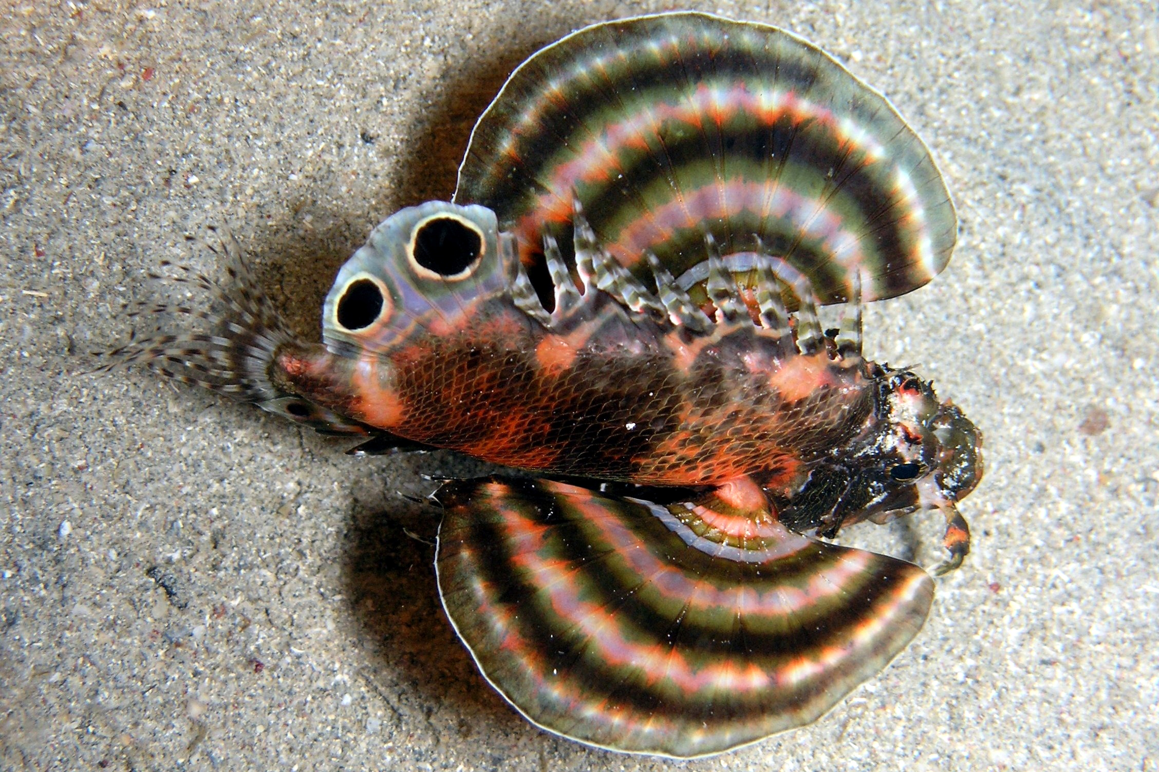 Image of a Twospot turkeyfish. Dendrochirus biocellatus. Taken at Lembeh Straits, North Sulawesi, Indonesia.